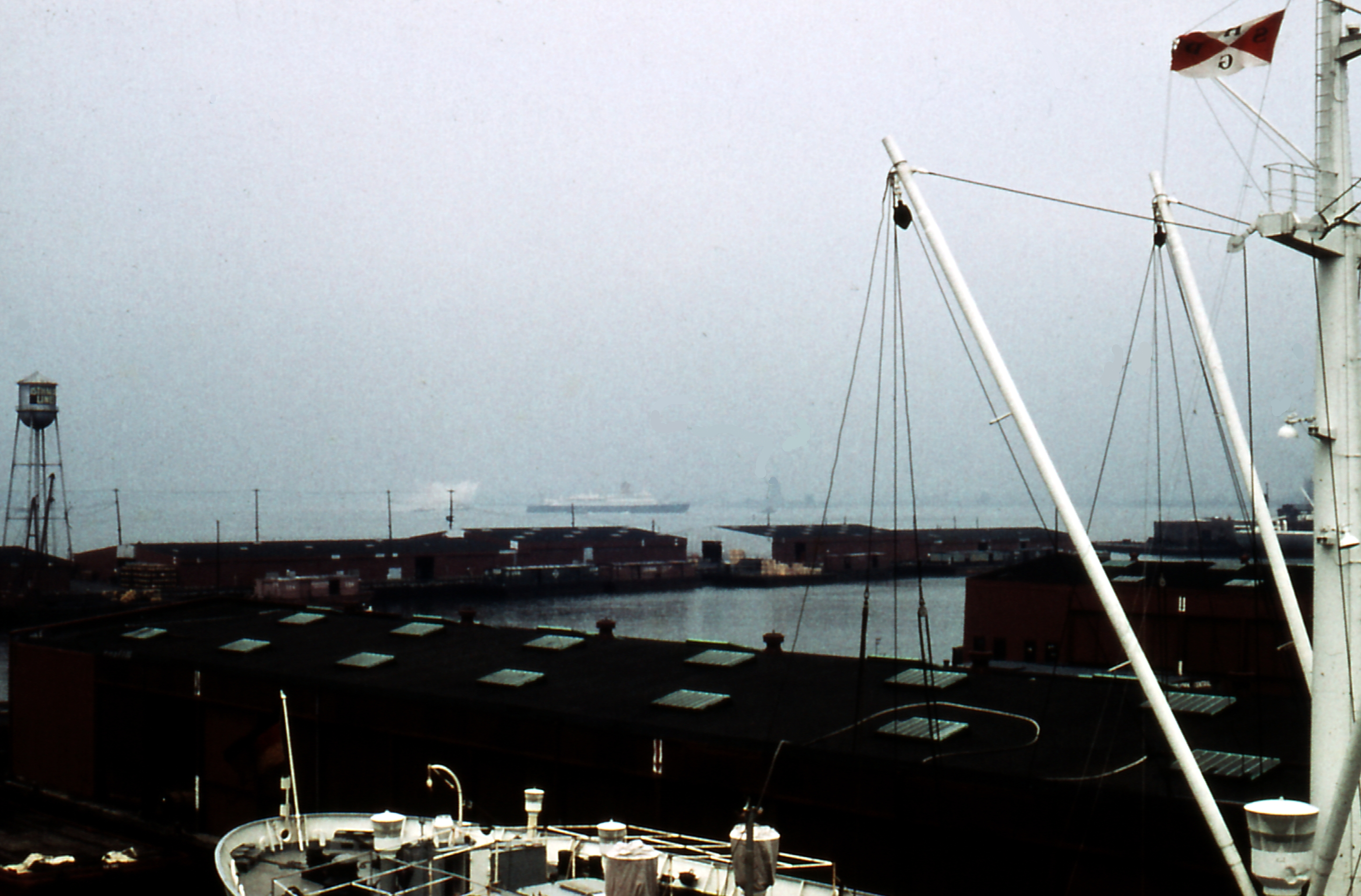 North German Lloyd passenger ship Bremen on her maiden voyage, arriving in New York on 16 Jule 1959